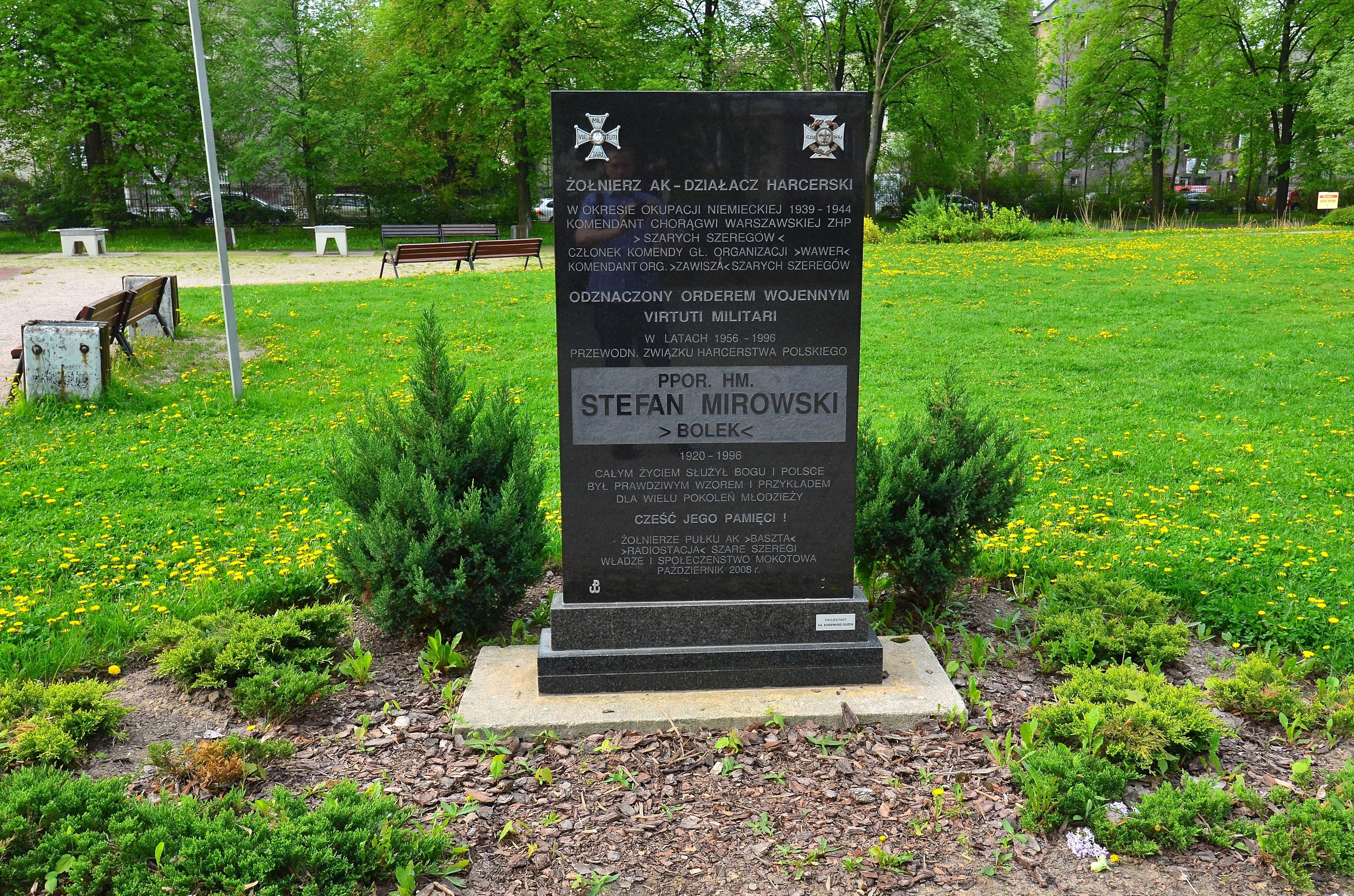 Stefan Mirowski memorial. 2nd Jordanowski Park at 6 Odyńca Street in Warsaw